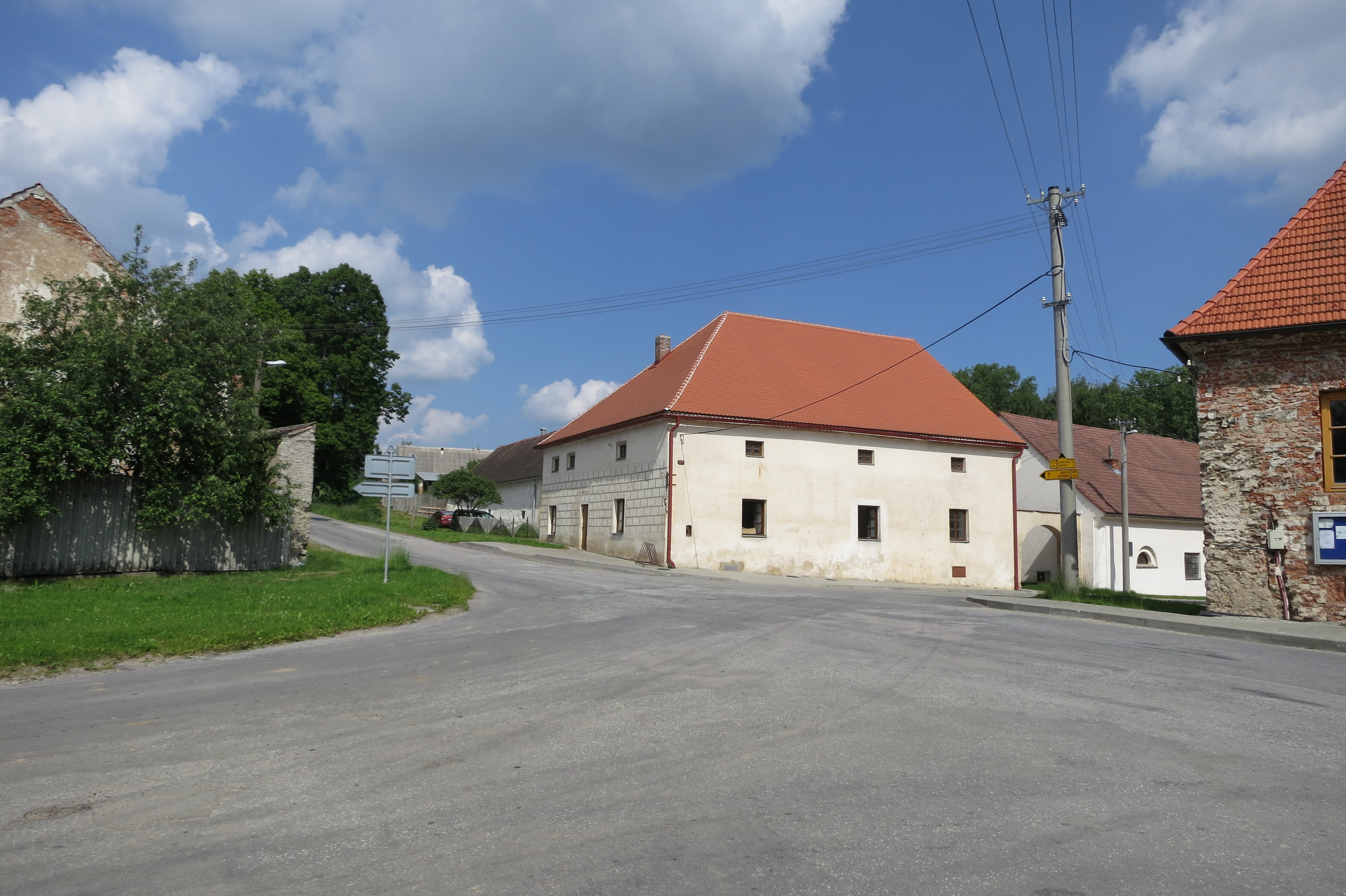 Center of Knínice, Jihlava District.